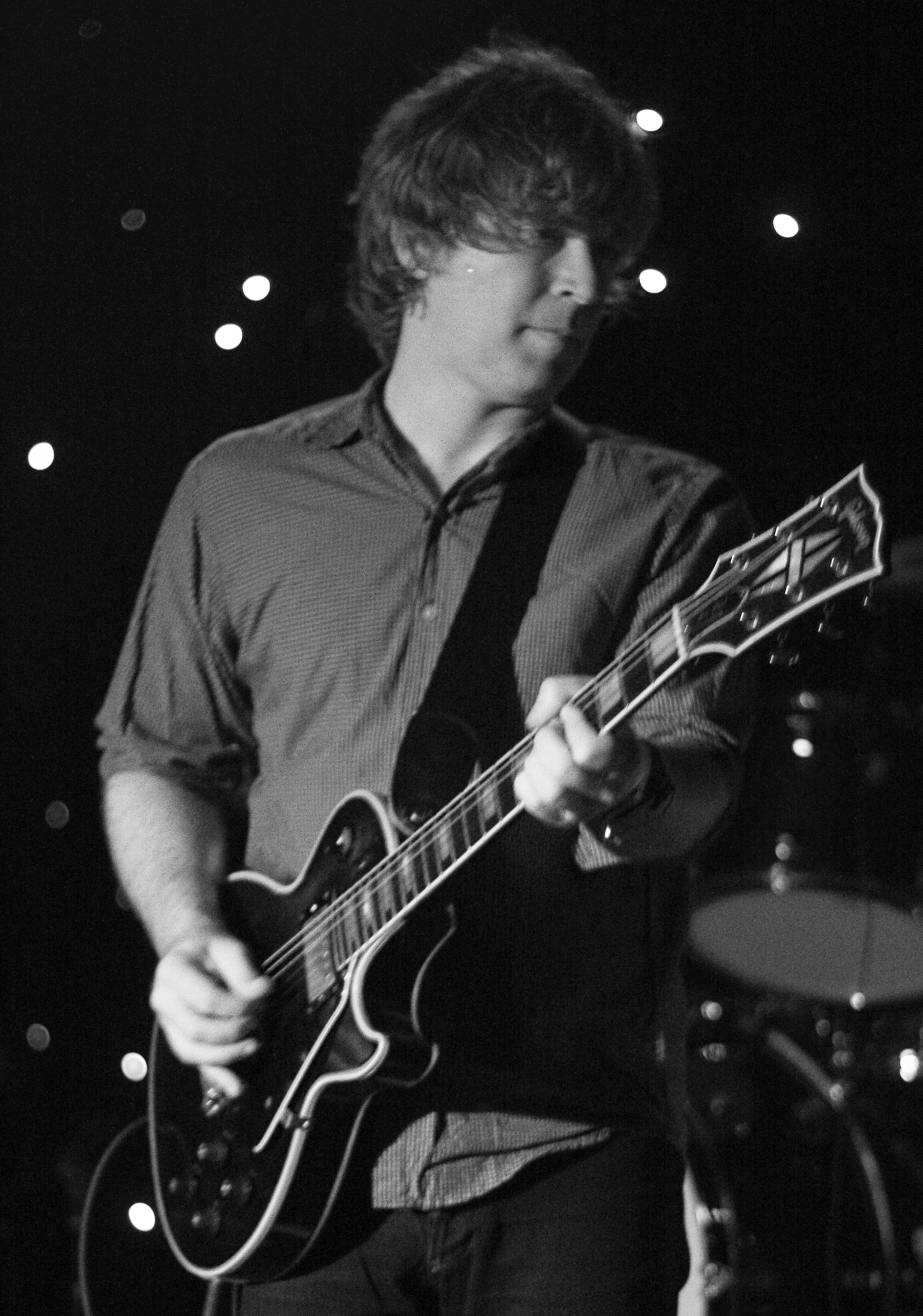 Nada Surf plays Hailey's, Denton, TX - 11/21/2008